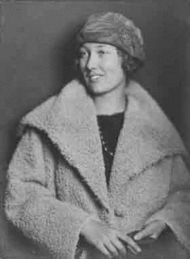 Willemijn Posthumus-van der Goot